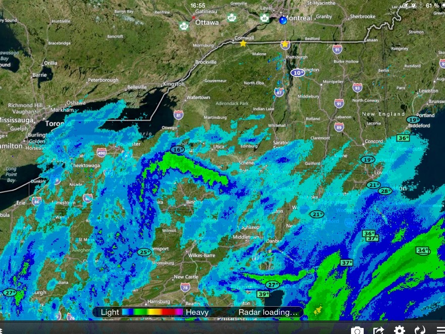 The snow storm at 6PM local time. The Coastal depression is at The botton right, and some précipitations where falling near Buffalo and the Great Lakes.